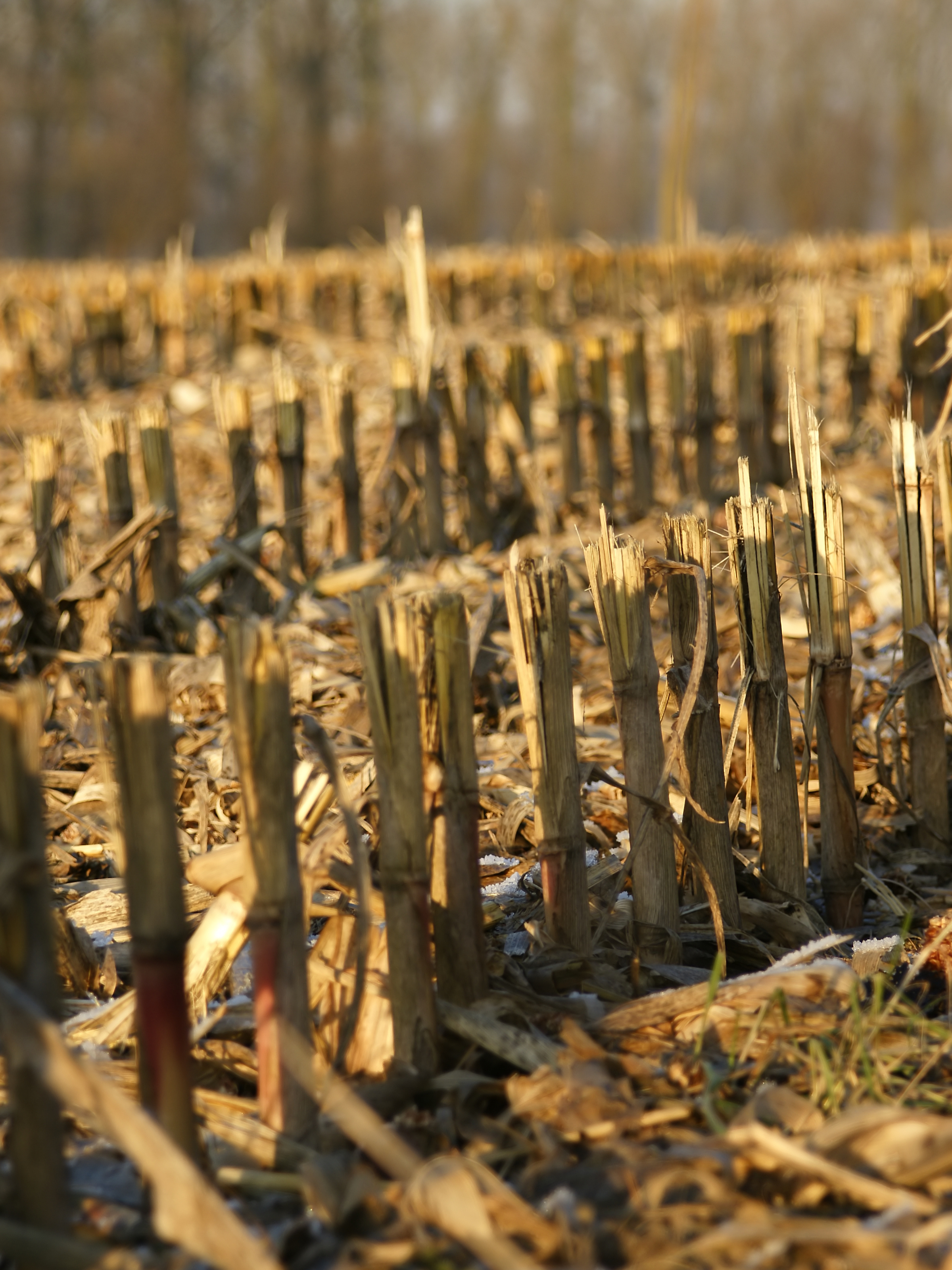 Maize stubble field in Oostkamp, Belgium